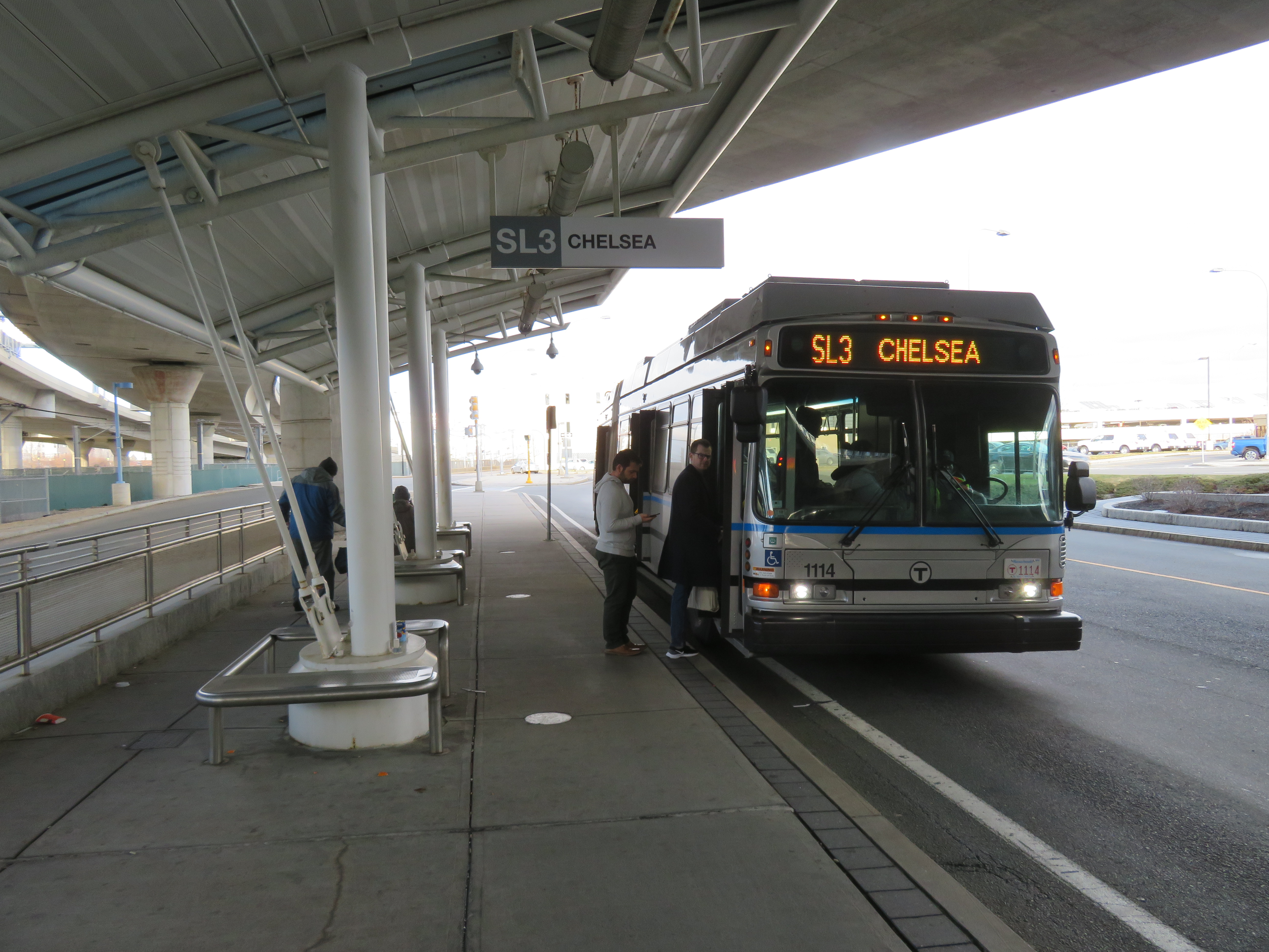 MBTA route SL3 bus at Airport station in December 2018